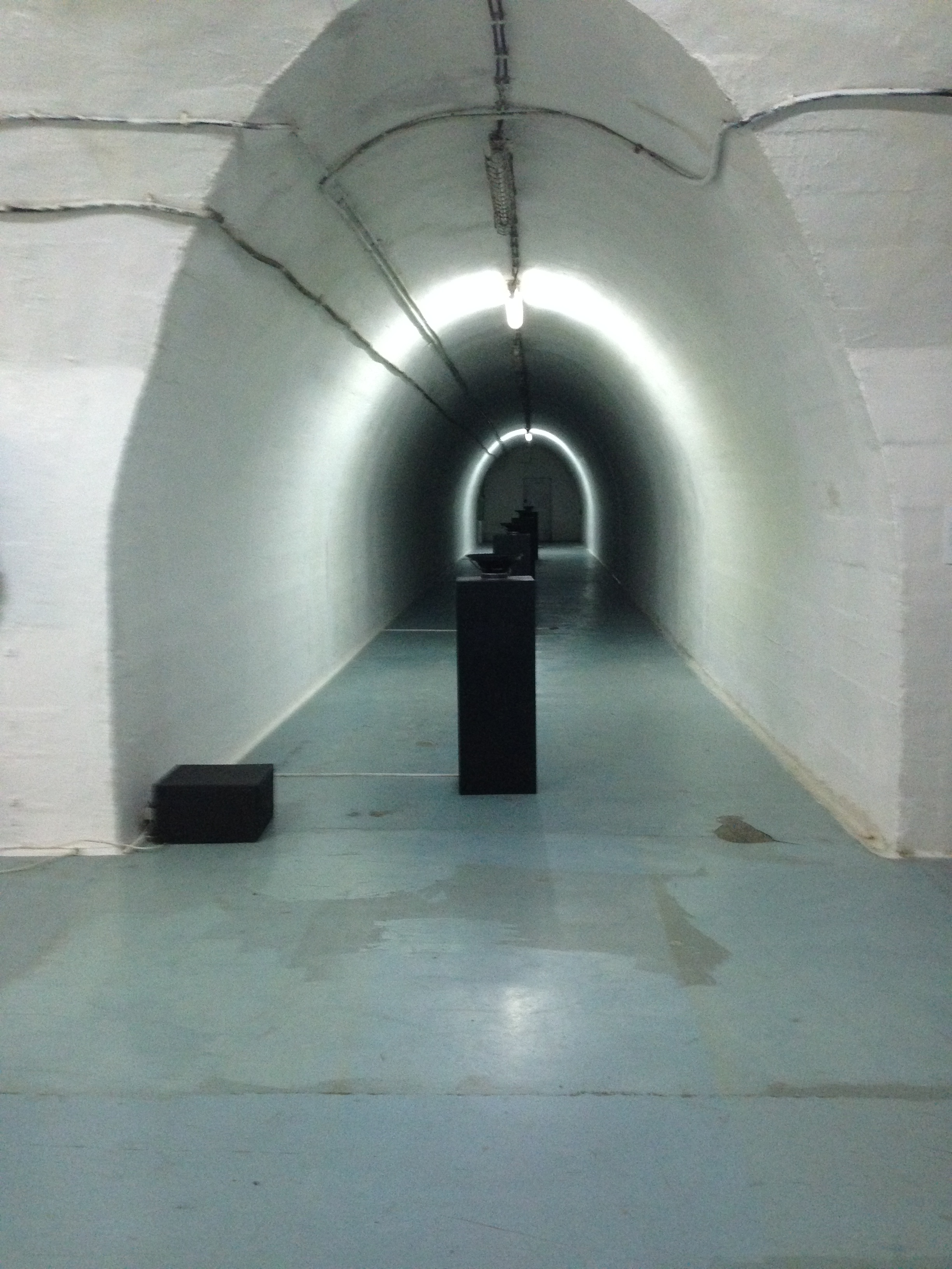 Inside ARK Konjic